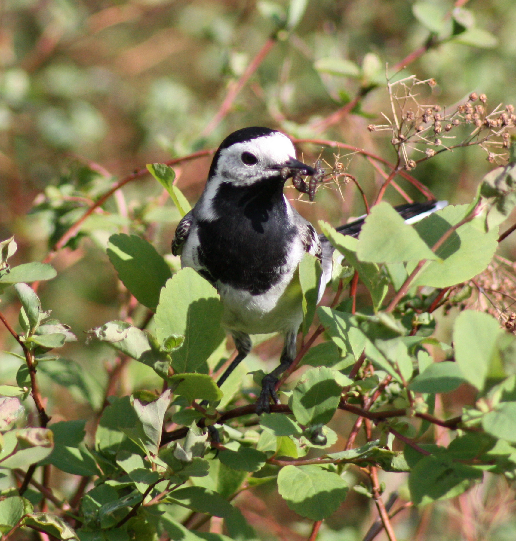 White Wagtail (Motacilla alba) has catched a worm in Hupisaaret Park in Oulu.